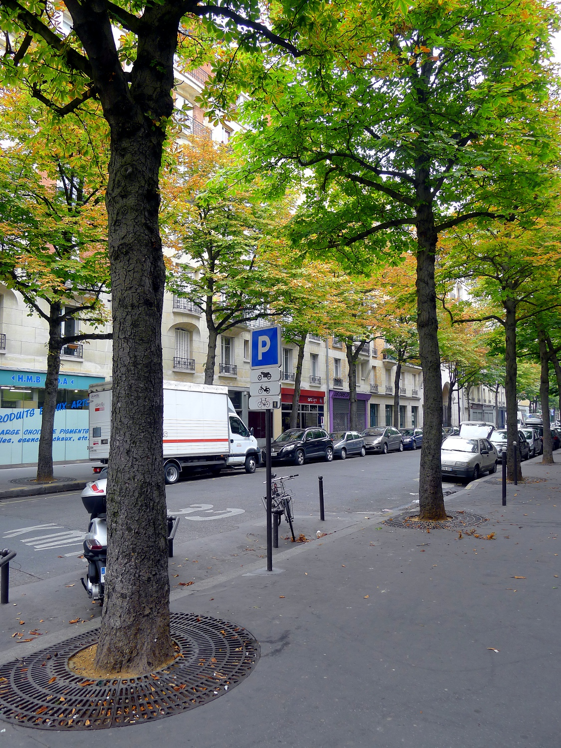 Prague street - Paris